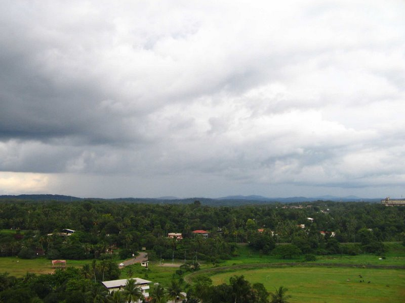 thiruvalla town